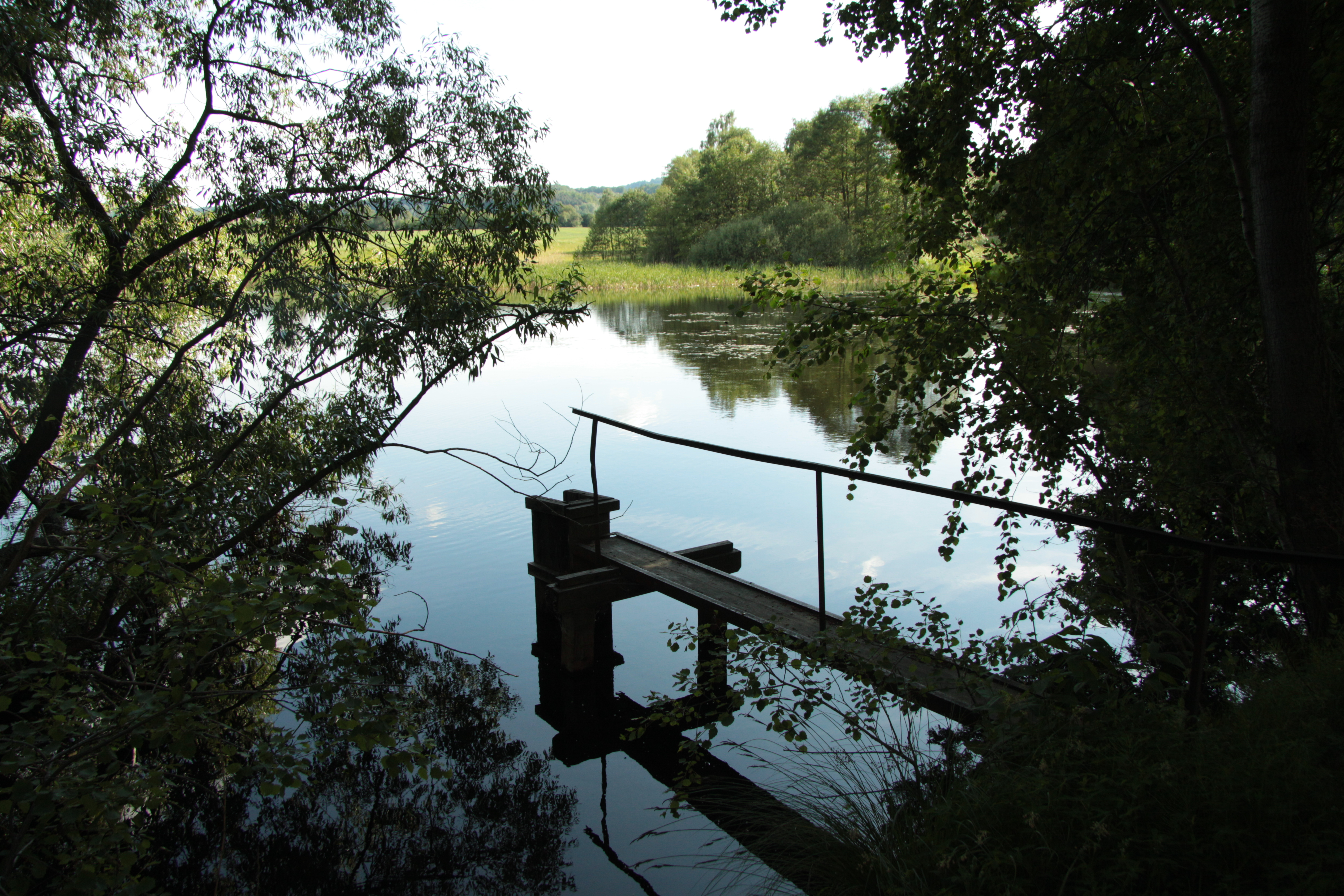 Natural monument Koubovský rybník near Lhenice, Prachatice District, Czech Republic - Google Maps - Google Earth